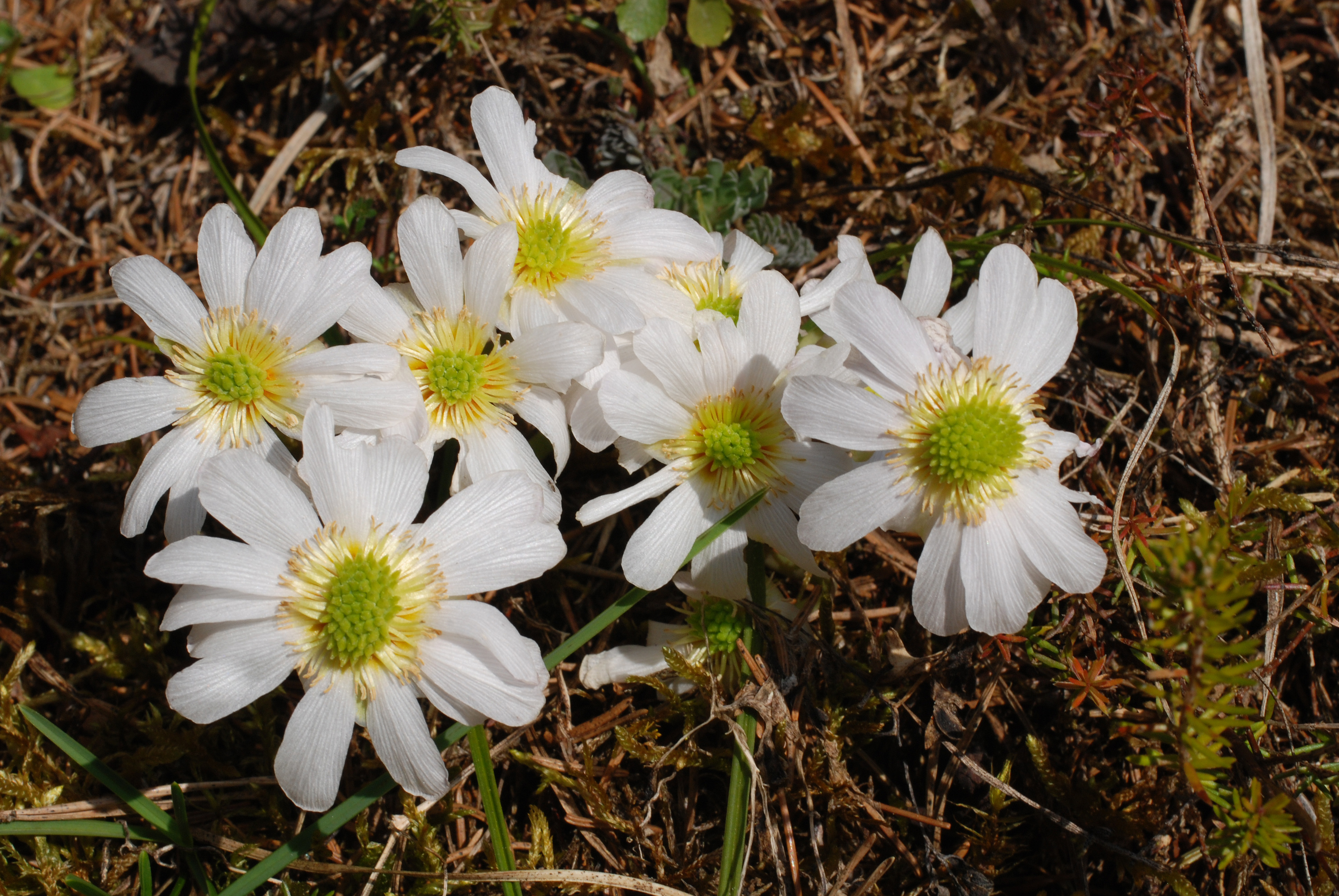 Callianthemum anemonoides, Hinterstoder / Polsterlücke, Upper Austria, Austria